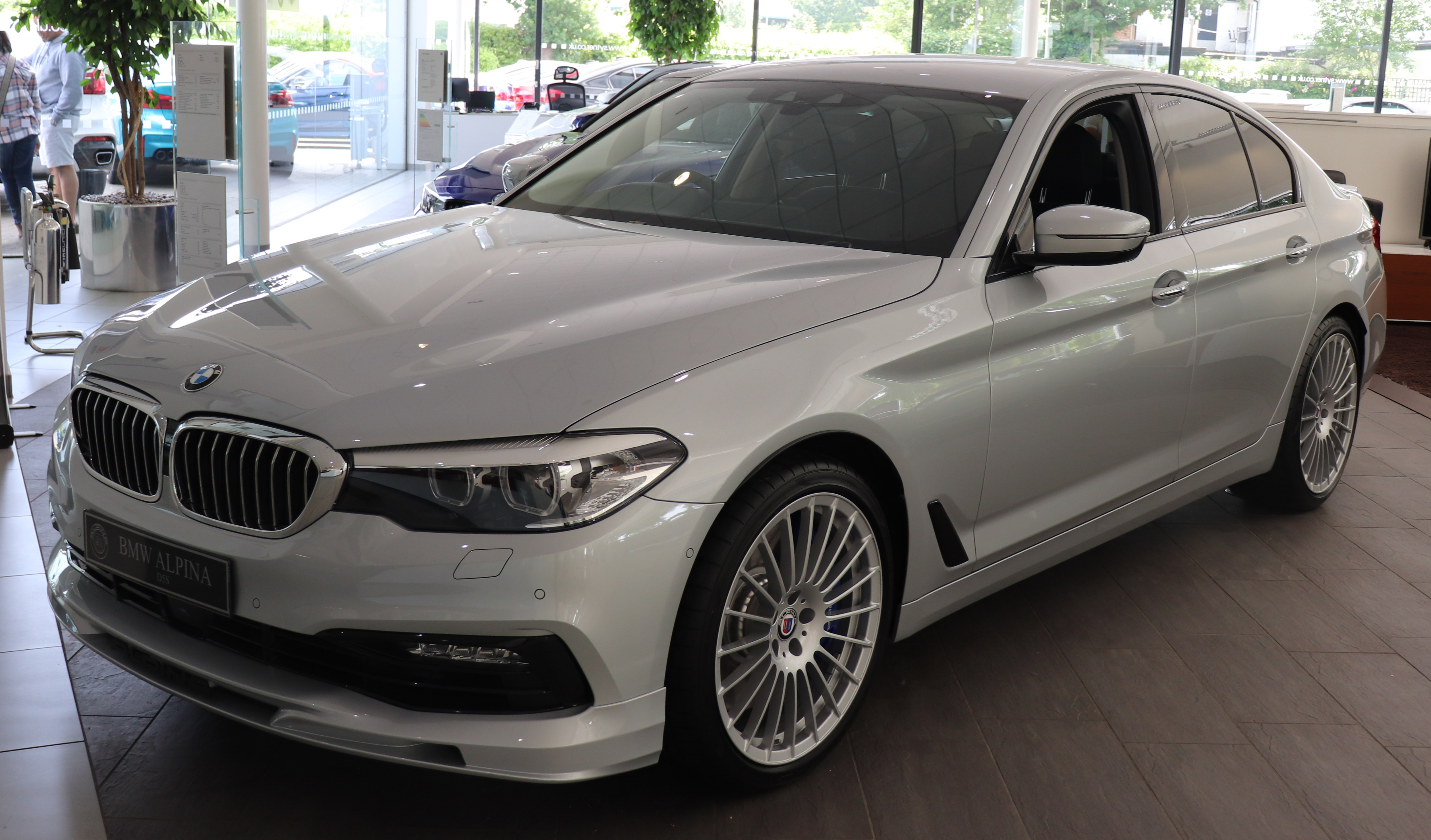 2018 Alpina D5 S 3.0 Front Taken in Solihull